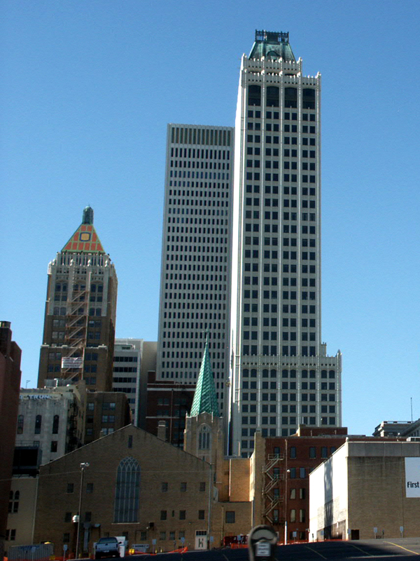 Mid-Continent Tower in Tulsa, Oklahoma. Photo by camerafiend.